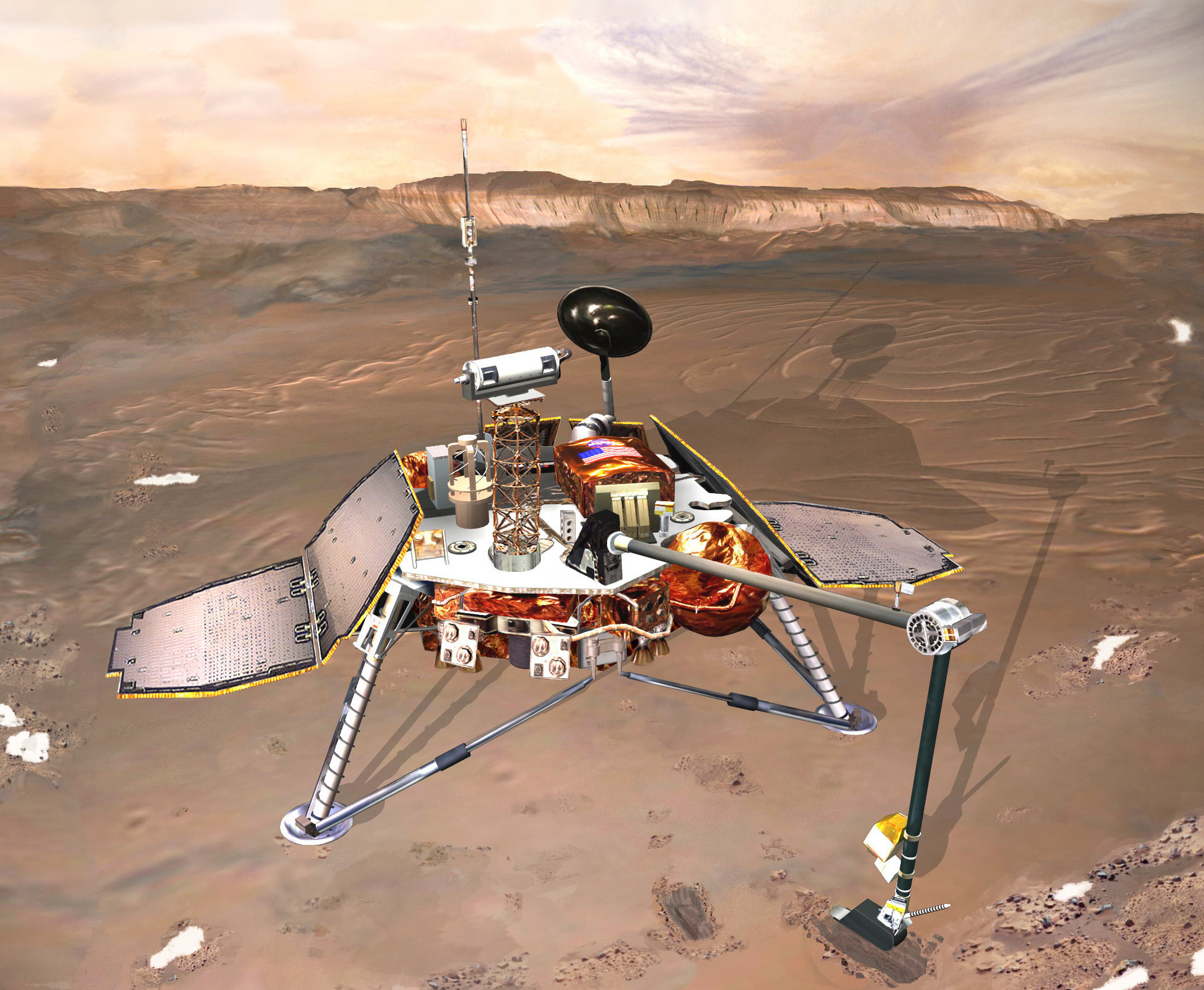 Front illustration of Mars Polar Lander